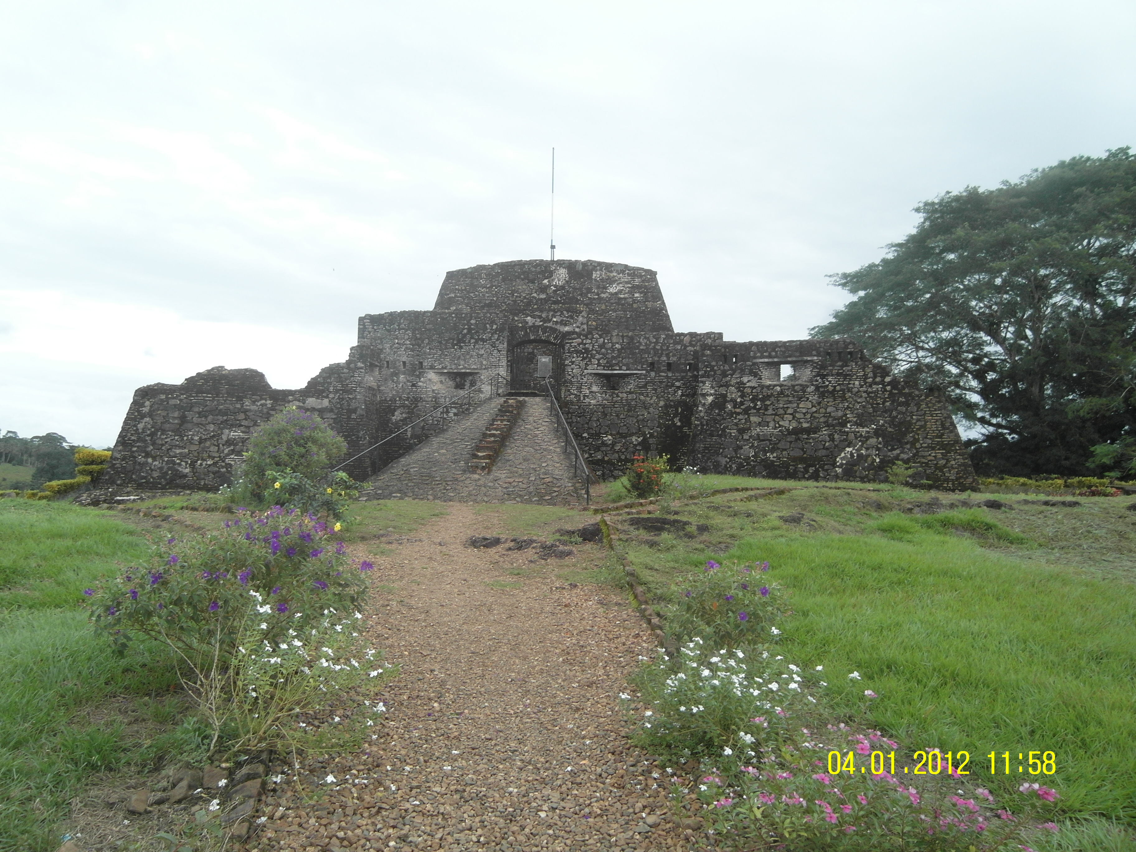 The eponymous fortress of El Castillo